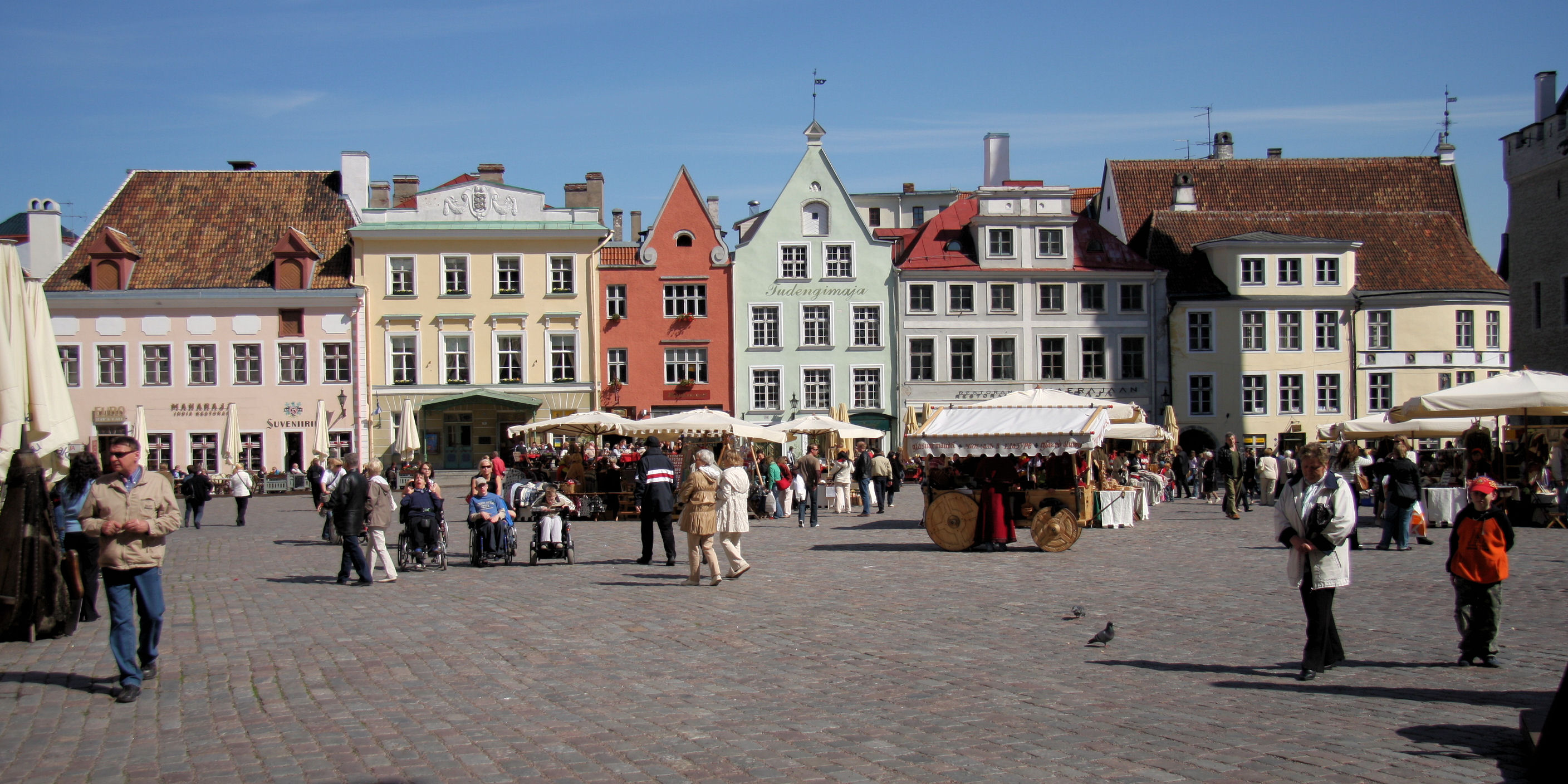 The Town Hall Square (Raekoja plats) in Tallinn, Estonia.